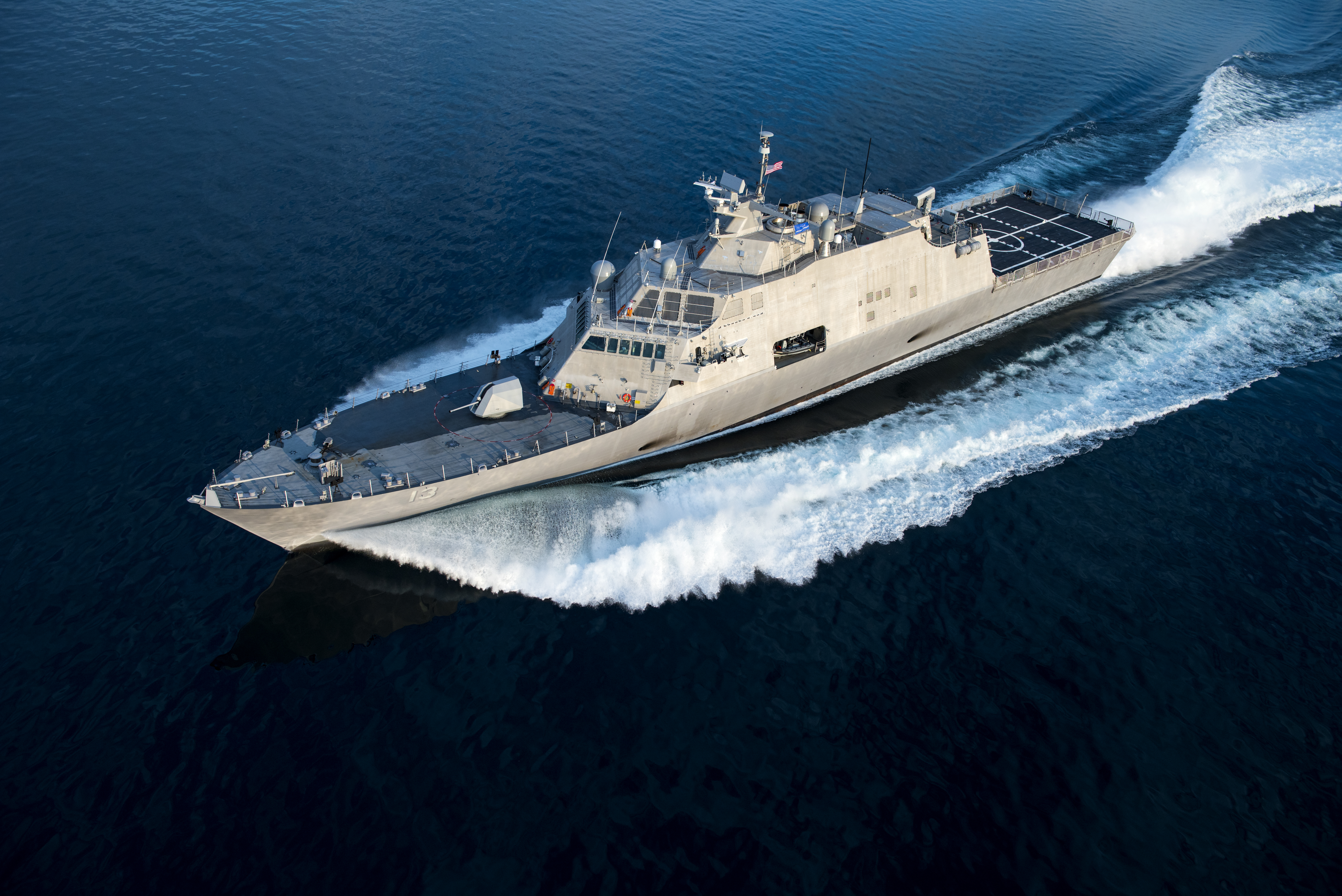 The future littoral combat ship USS Wichita (LCS 13) conducts acceptance trials in Lake Michigan, which are the last significant milestone before a ship is delivered to the Navy. LCS-13 is a fast, agile, focused-mission platform designed for operation in near-shore environments as well as the open-ocean. It is designed to defeat asymmetric threats such as mines, quiet diesel submarines and fast surface craft.